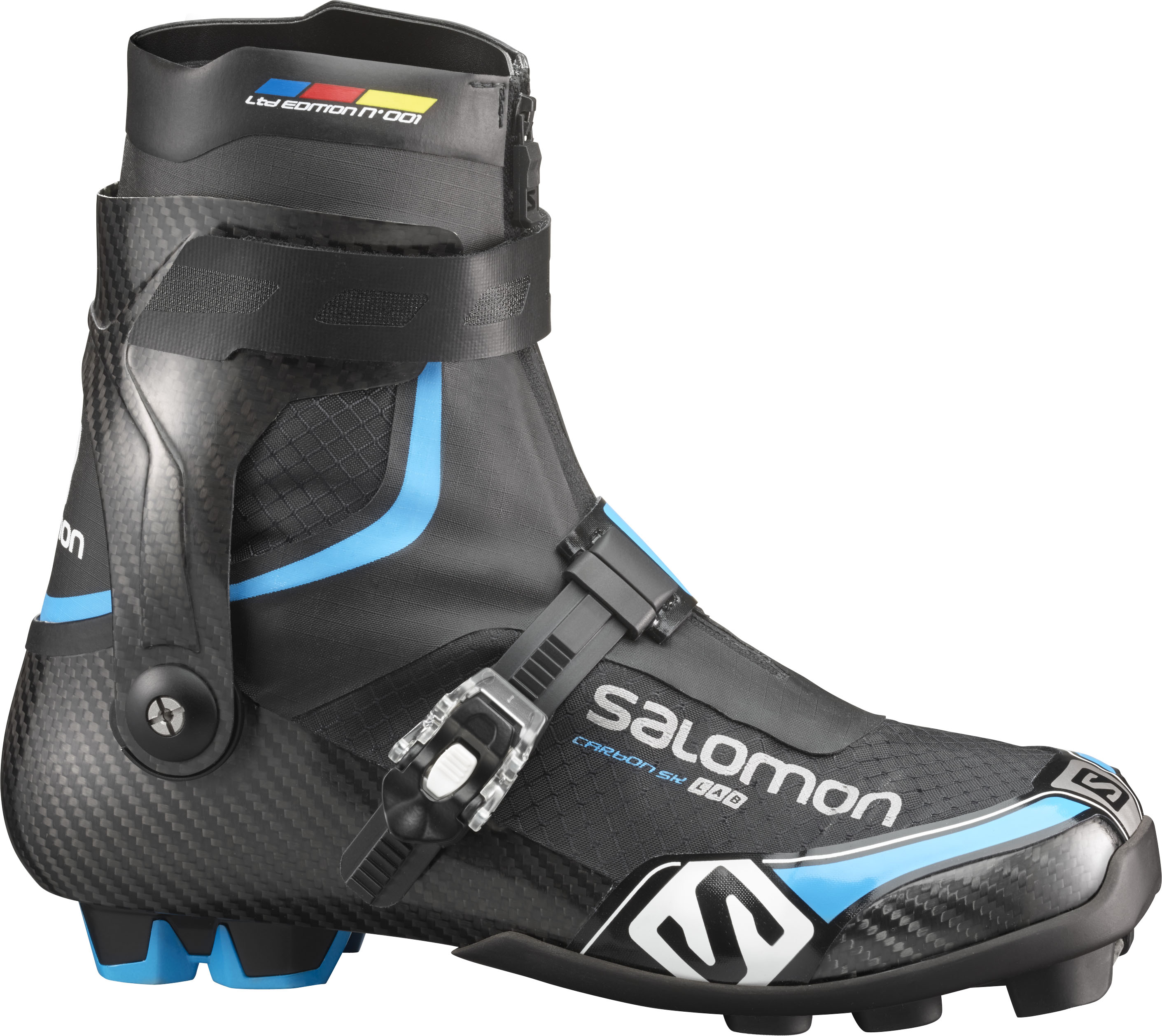 A competition cross-country ski boot for skate skiing, made by Salomon. The boot has parts made of carbon fiber.